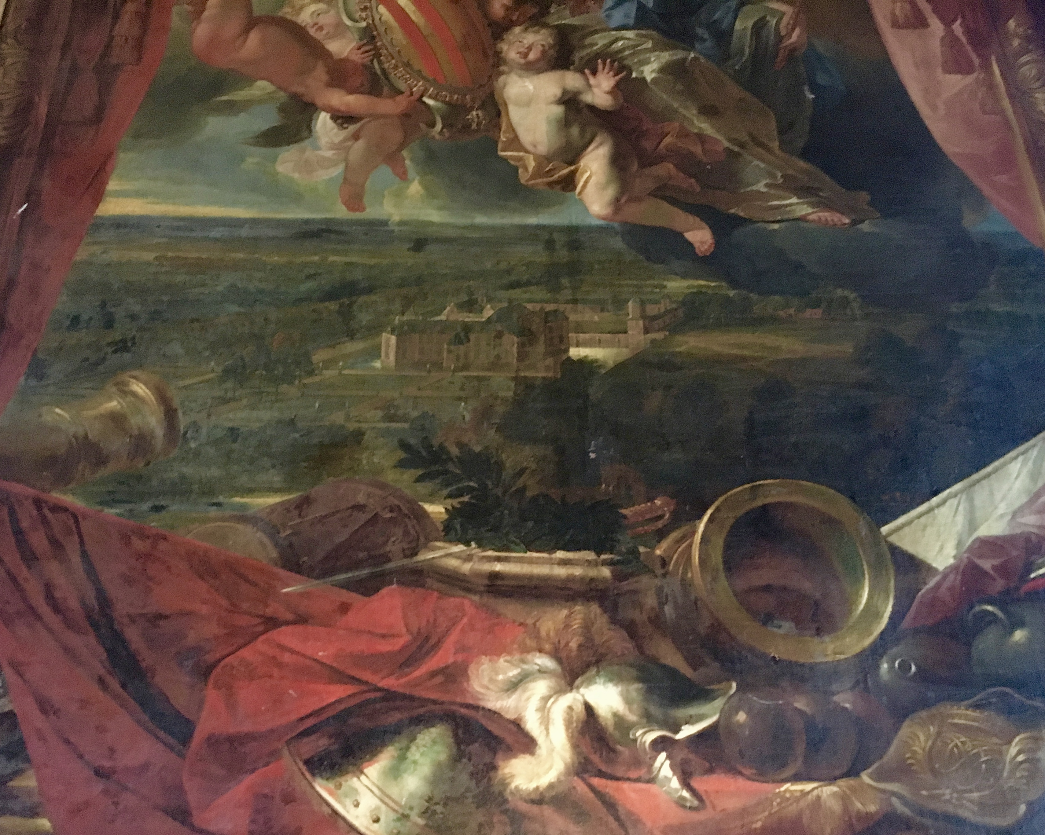 A representation of the Castle of Westerlo (de Merode) and its grounds in the beginning of the 18th century. Detail of a tapestry cartoon by Jan van Orley (1665-1735) made for Field Marshalle Jean-Philippe-Eugene de Mérode representing his belongings with personifications of the virtues. Collection Prince de Merode, castle of Westerlo